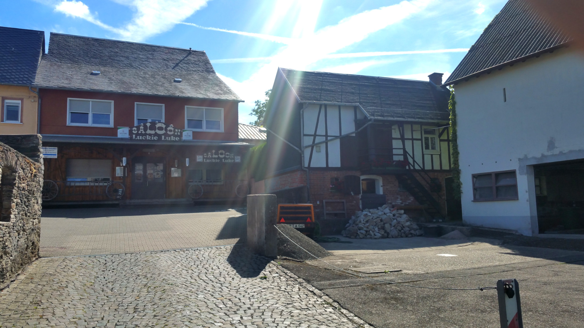 The former bar "Atlantic" in Lautzenhausen near Hahn Airbase, a filming location as well